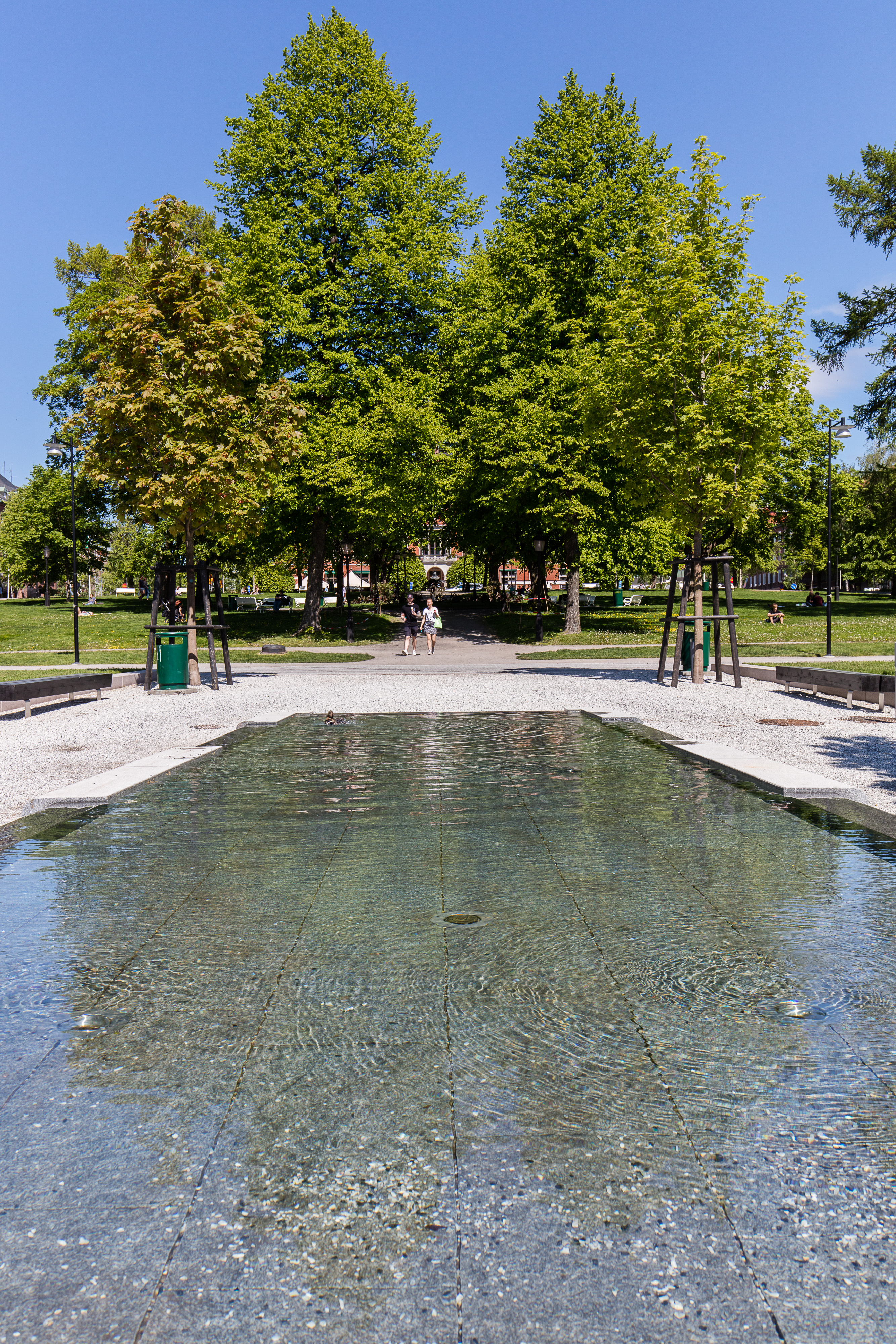 Rådhusparken, by the Ume River.